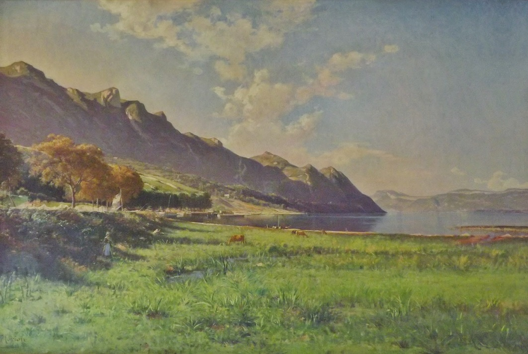 Sight of the lac du Bourget lake from Le Bourget-du-Lac (Savoie, France) during the 19th century.